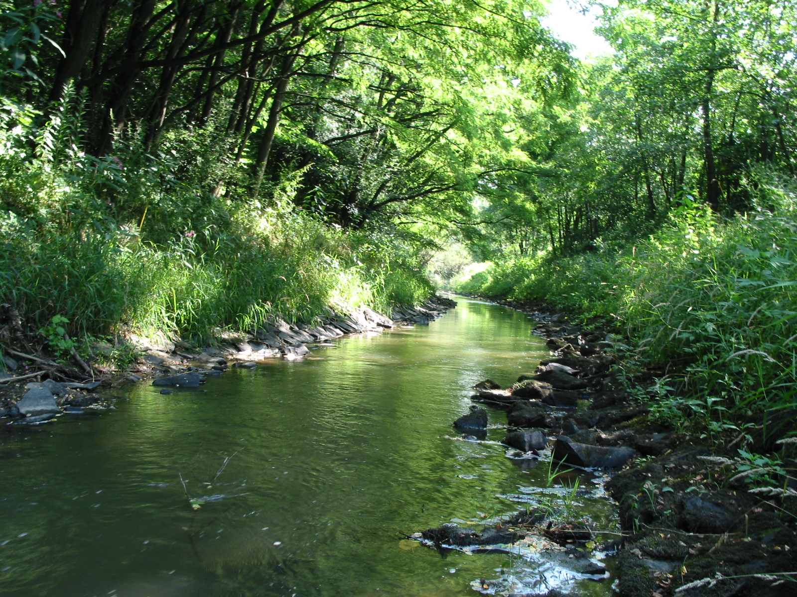 Stream in Litovelské Pomoraví protected landscape area north from Horka nad Moravou (Czech Republic) in 2003.